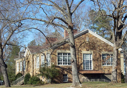 Samuel C. Dobbs Building (1926)